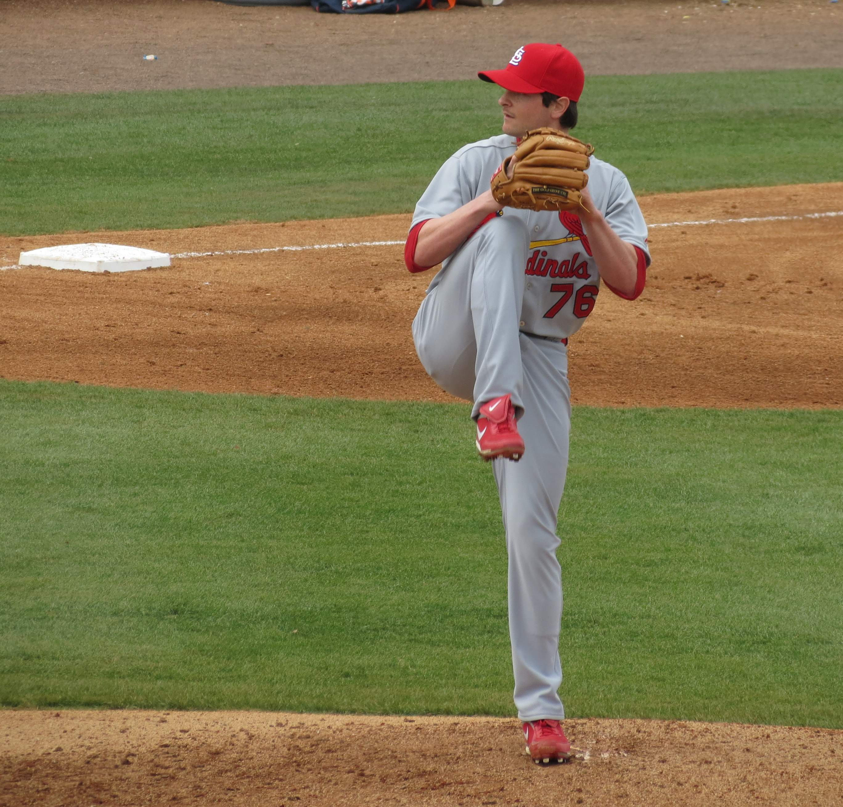 St. Louis Cardinals pitcher John Gast. Seen here preparing to throw in a 2013 Spring Training game. Photo courtesy Flickr user BeGreen90.